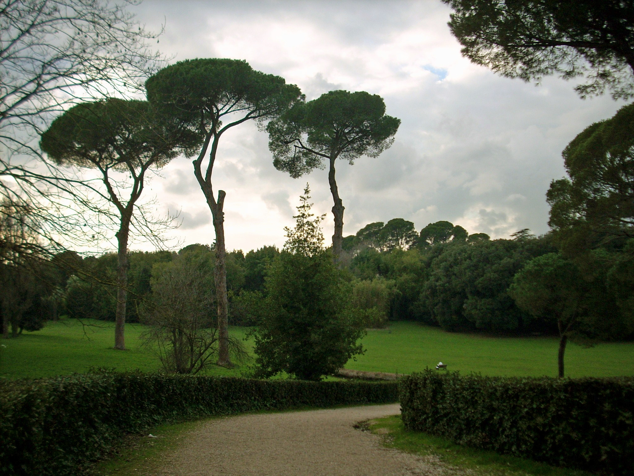 Villa Ada, park lying in the city of Rome